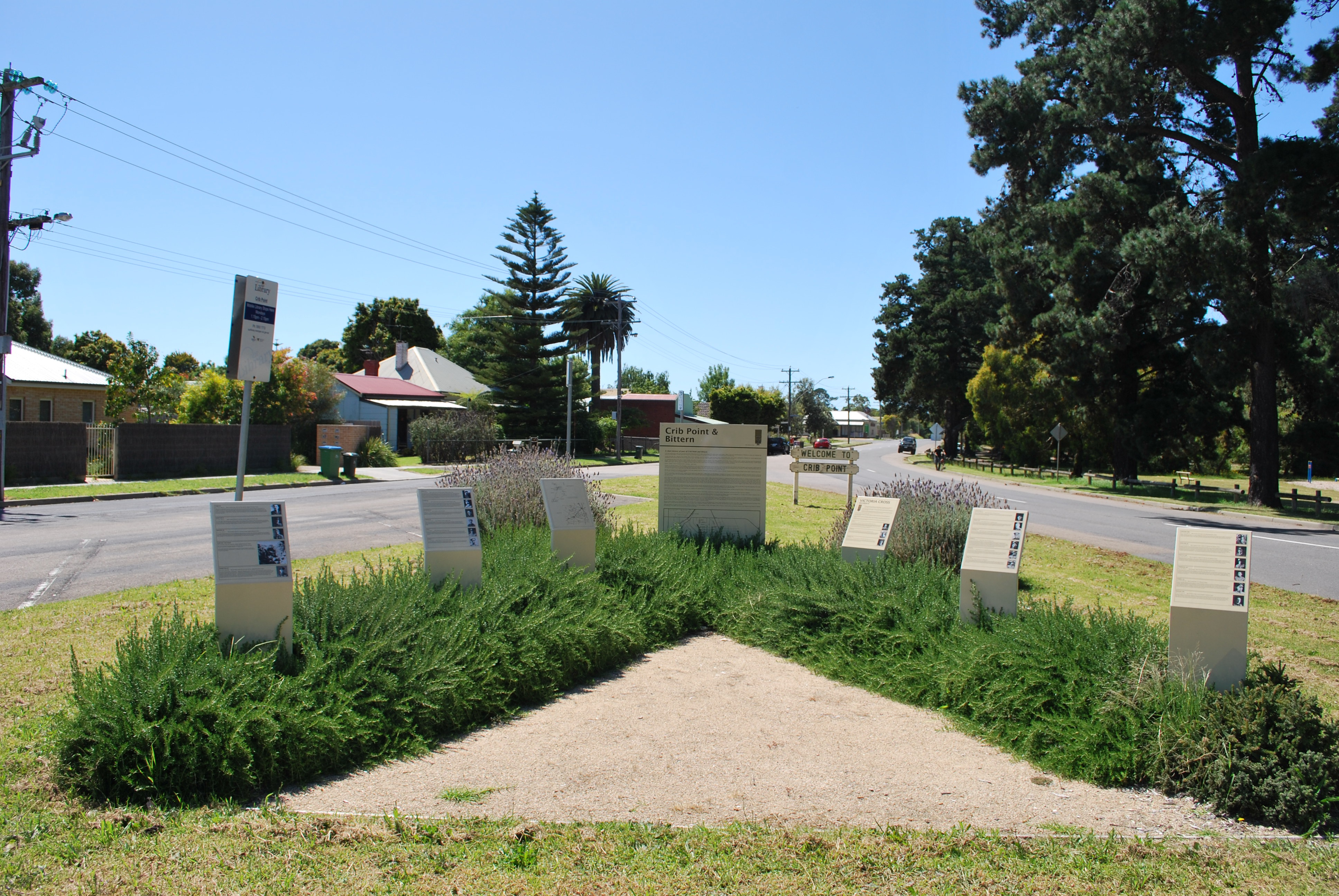 War memorial at Crib Point, Victoria